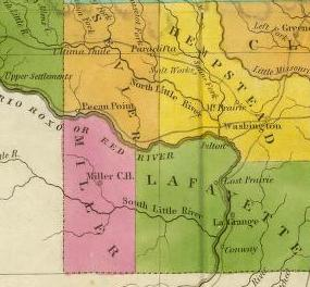 Cropped from Map of the State of Missouri And Territory Of Arkansas Compiled From The Latest Authorities. Published by S. Augustus Mitchell Philadelphia. 1831. J.H. Young Sc.